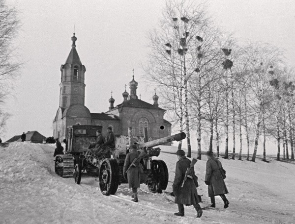 “An artillery division on the march”. An artillery division on the march. The Western Front. The offensive to the north-west of Vyazma, about 200 kilometers west of Moscow. Izvekovo village.